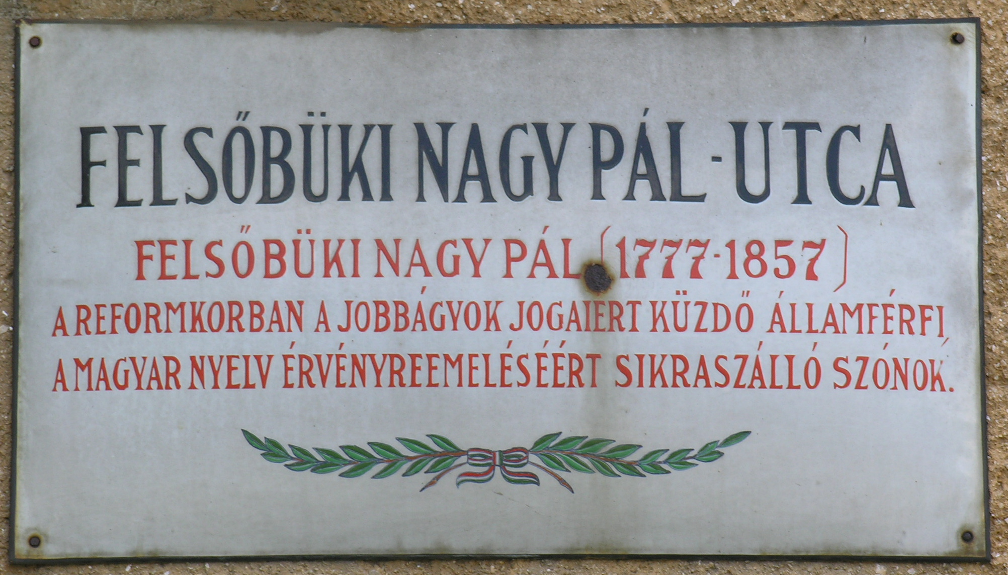 Commemorative plaque of Pál Felsőbüki Nagy, Budapest District XIV, Felsőbüki Nagy Pál Street No 12